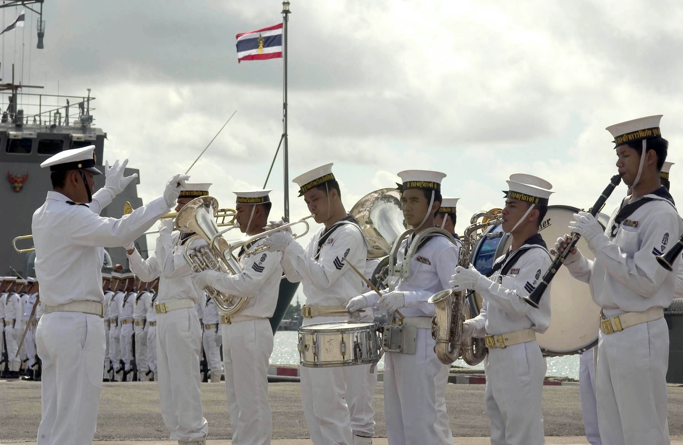 Sattahip, Thailand (June 20, 2006) - A Royal Thai Navy (RTN) band plays during the opening ceremony of the Thailand phase of exercise Cooperation Afloat Readiness and Training (CARAT). CARAT is an annual series of bilateral maritime training exercises between the United States and six Southeast Asia nations designed to build relationships and enhance the operational readiness of the participating forces. U.S. Navy photo by Mass Communication Specialist 2nd Class John L. Beeman (RELEASED)